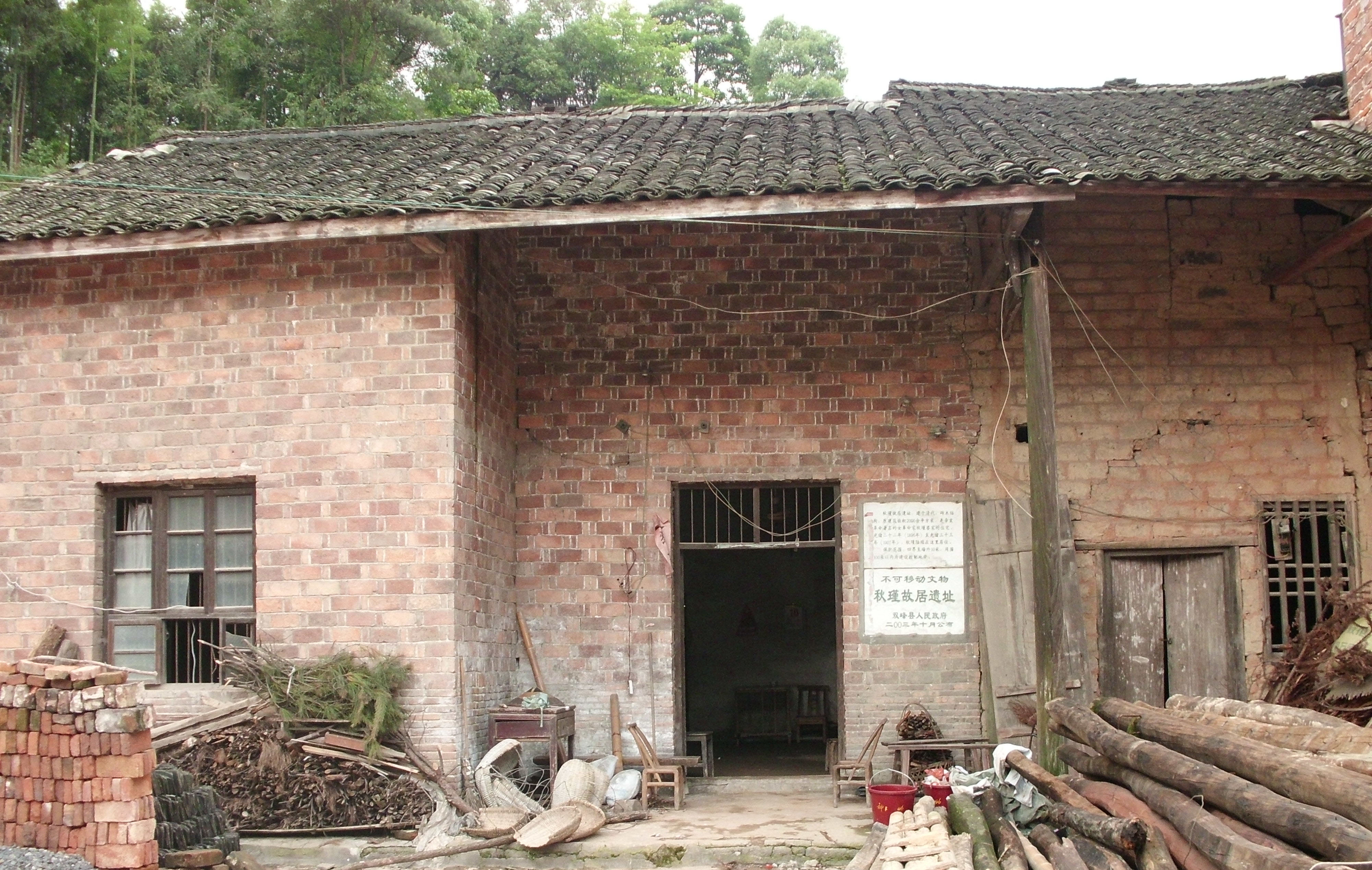 This picture is described in Qiu Jin in-laws house, Qiu Jin lived here from 1896 to 1907.